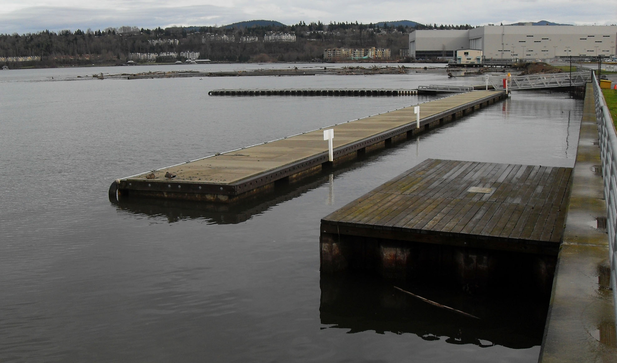 Seaplane (float plane)docks and floats at the Will Rogers - Wiley Post Memorial Seaplane Base, Renton Municipal Airport, Washington State